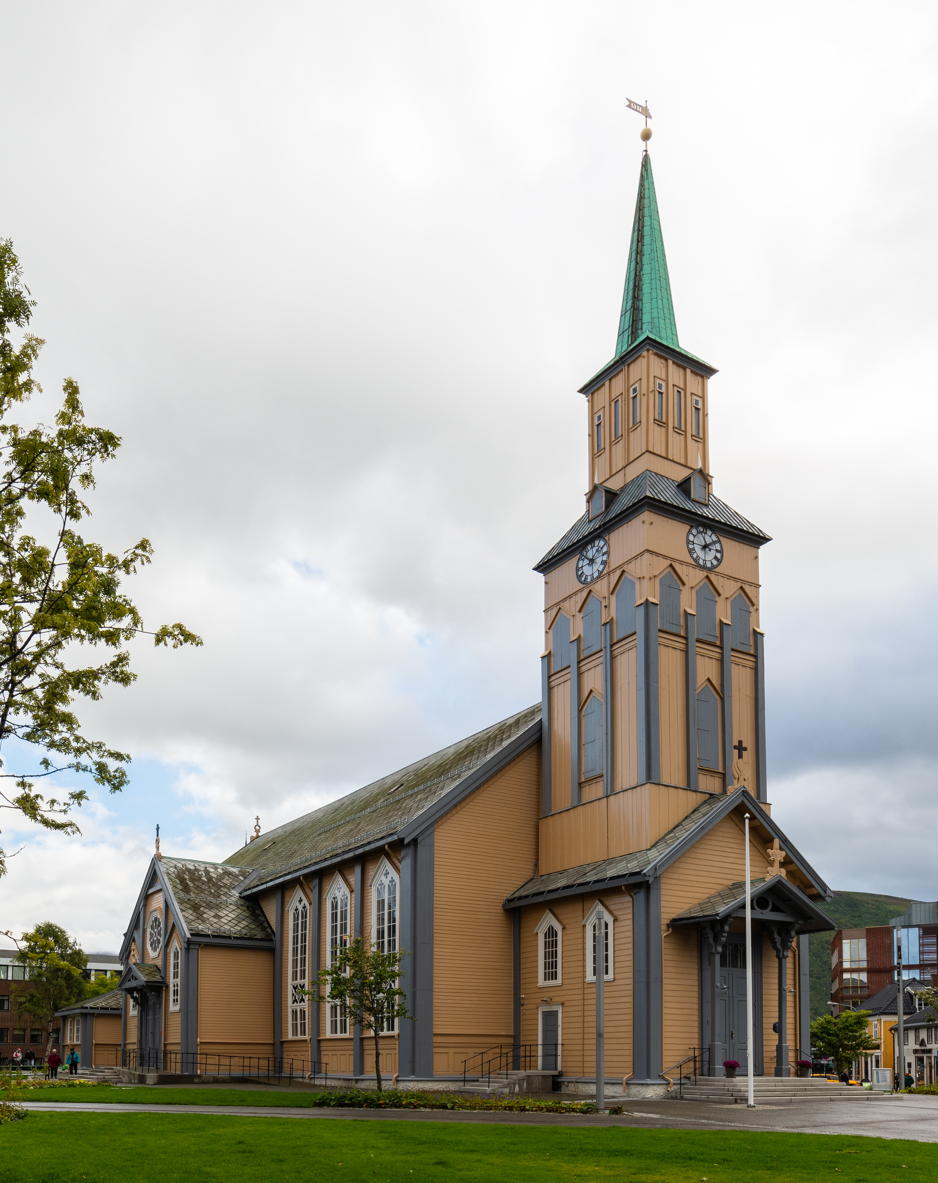 Cathedral, Tromsø, Norway